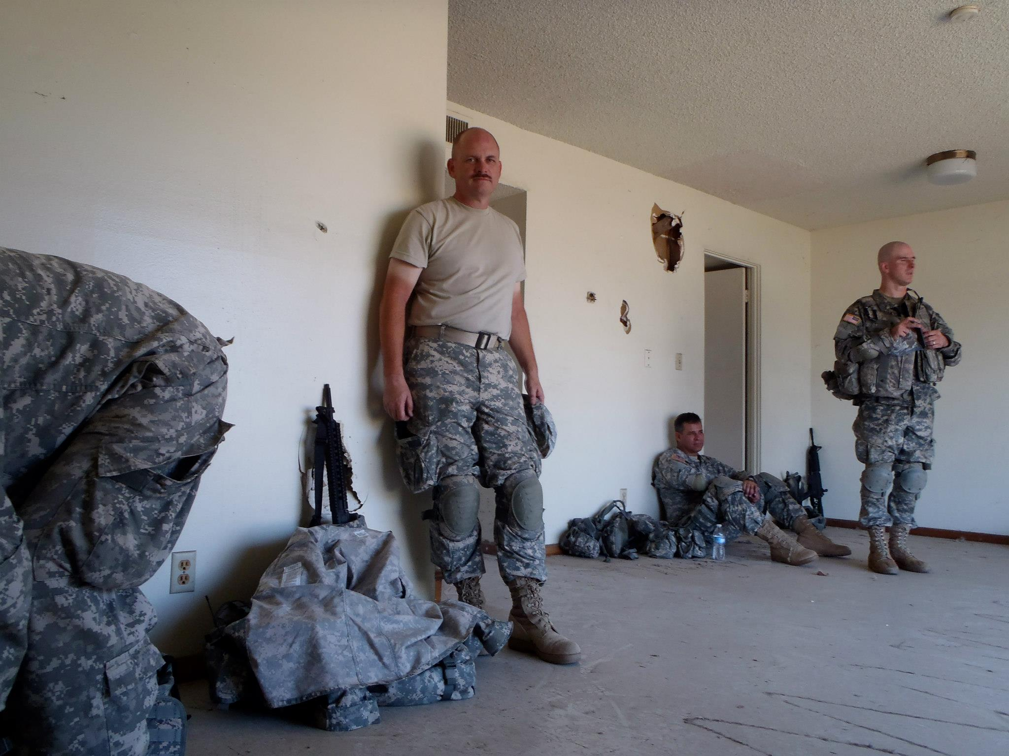 Training